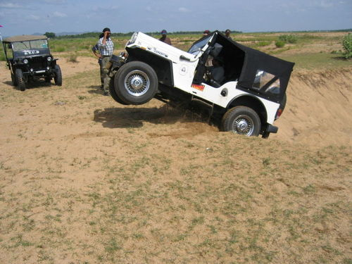 A shot of the action from The Palar Challenge